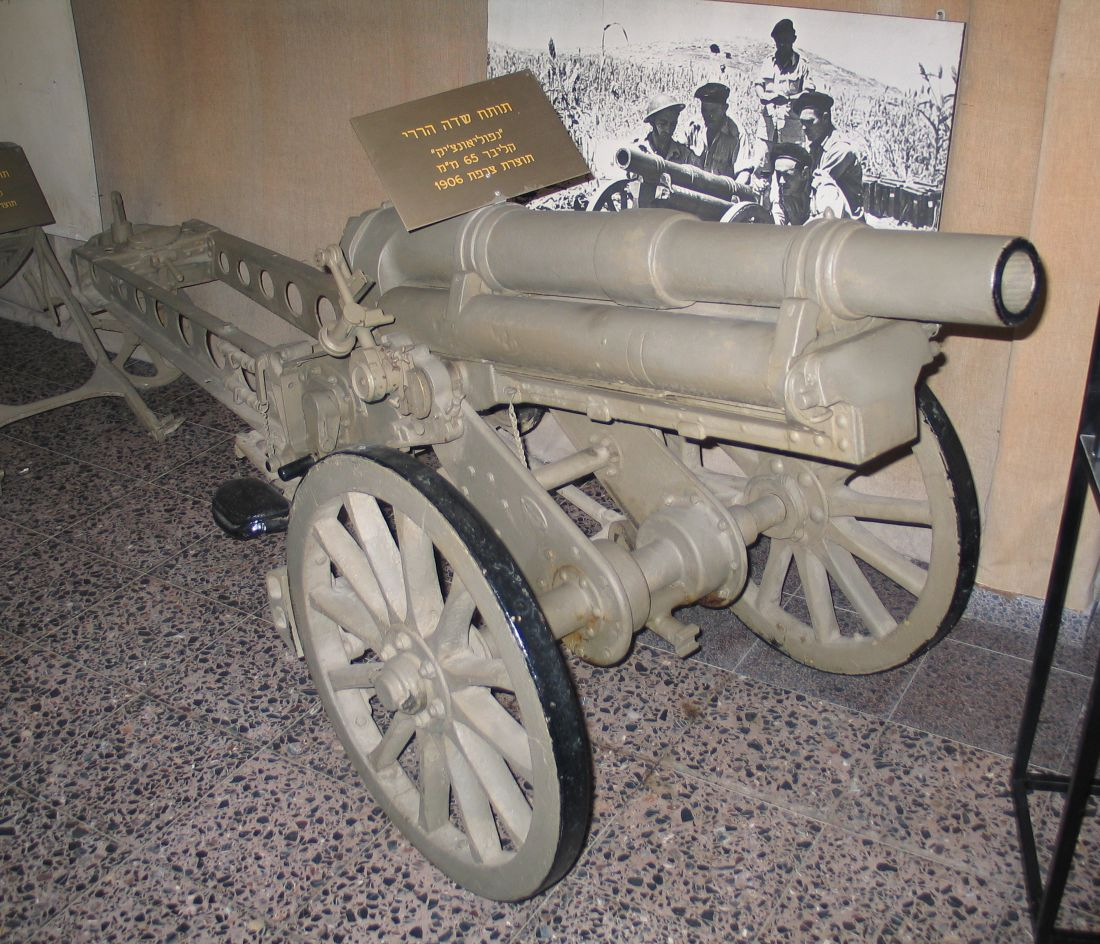 Description: French Canon de 65 M(montagne) modele 1906 Schneider-Ducrest (known in Israel as Napoleonchik - a Little Napoleon) in Batey ha-Osef Museum, Tel Aviv, Israel. 2005. Source: Photo by me, User:Bukvoed.